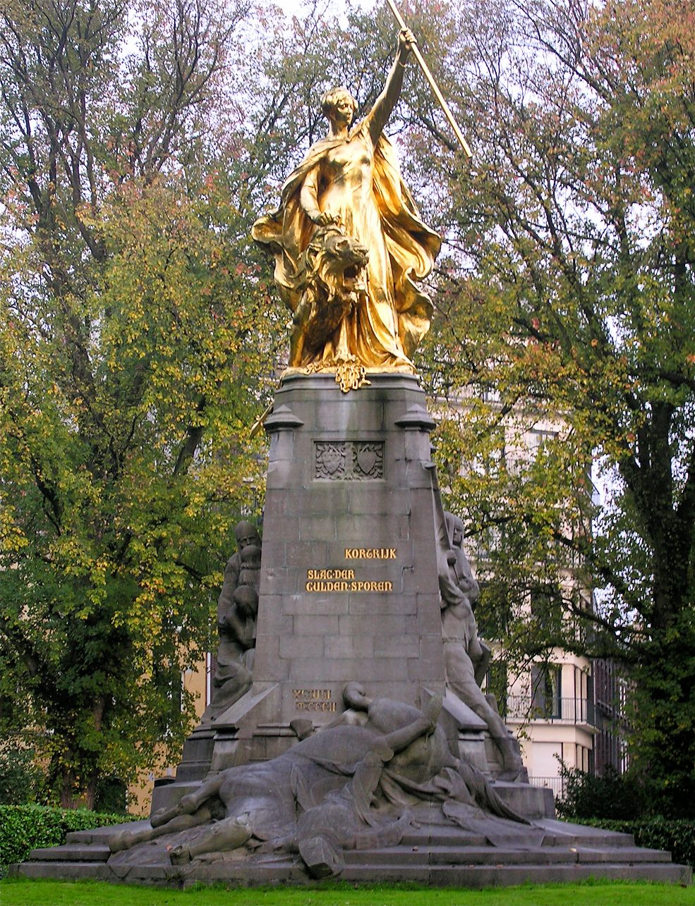 Kortrijk (Belgium): Groeninge Memorial